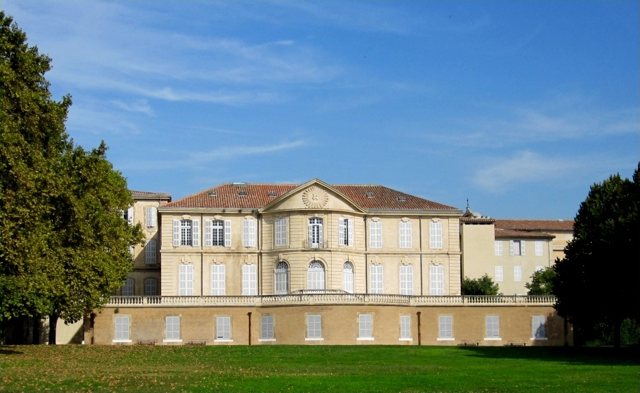 Property of the brother-in-law of Joseph Bonaparte and Désirée Clary, this castle received during a few days the King Charles IV of Spain. The Marshal Suchet died there in 1826.